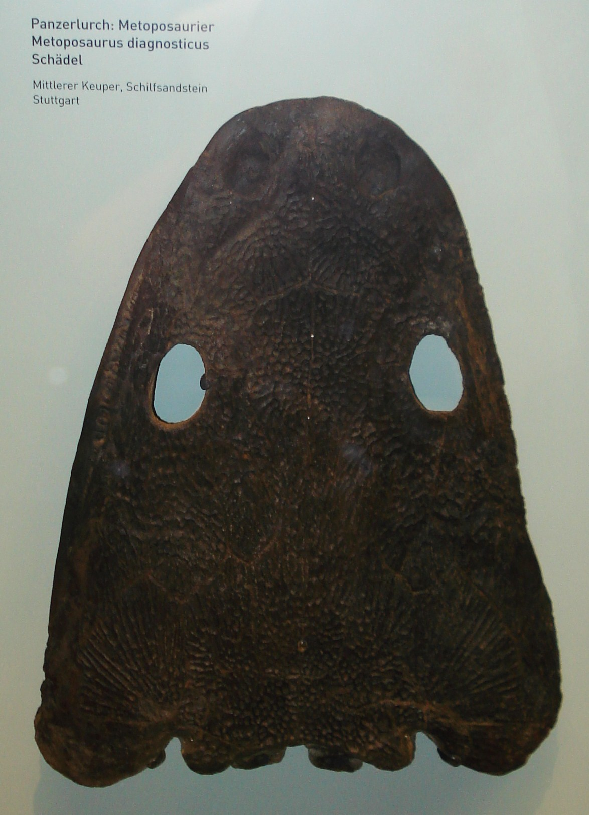 fossil of metoposaurus